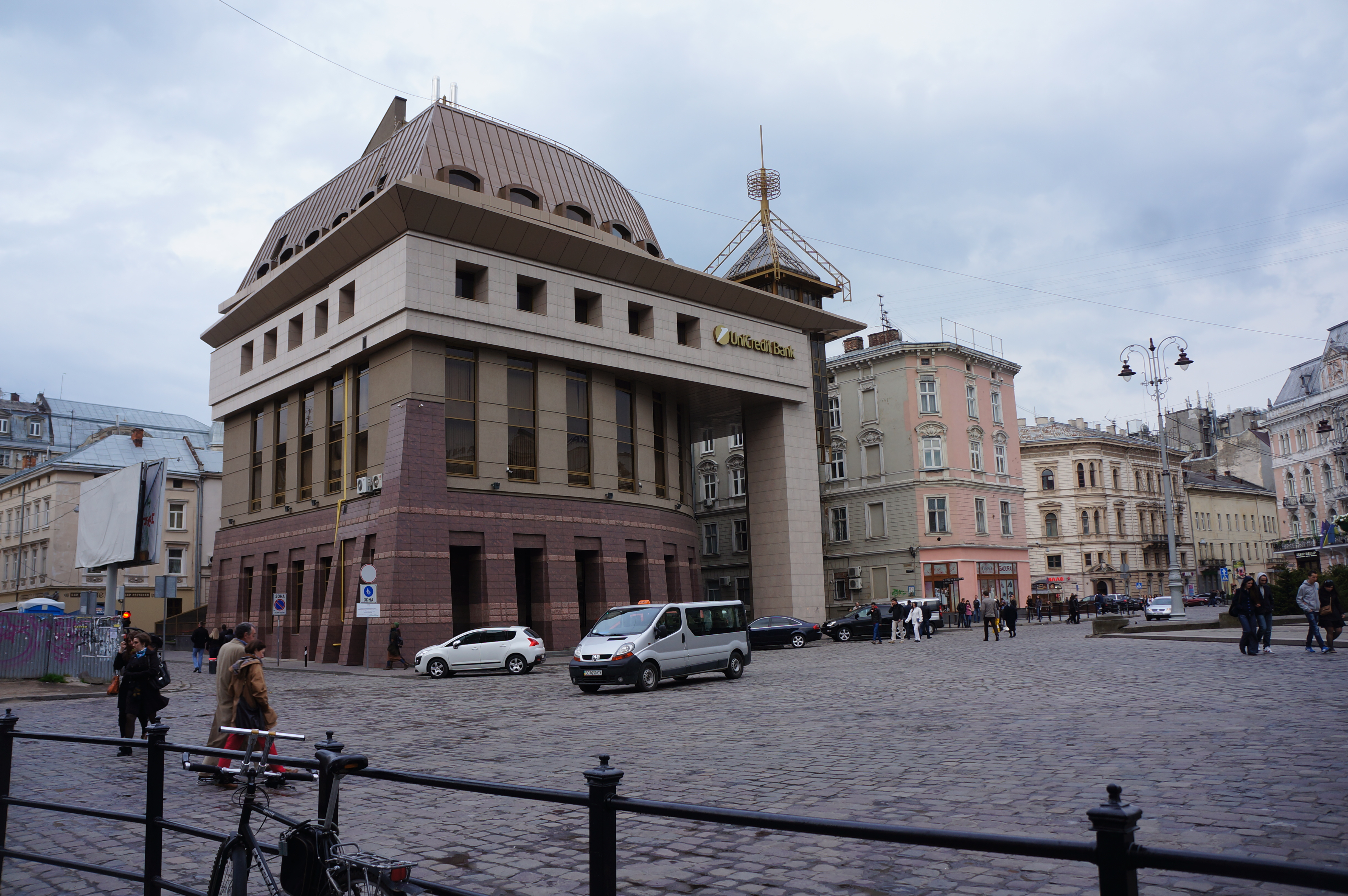 A modern building in downtown Lviv